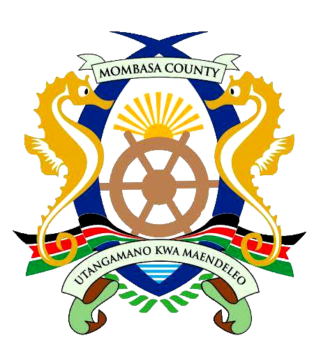 Coat of Arms of Mombasa County (Kenya)Kiswahili: Nembo ya Mombasa (Kenya)